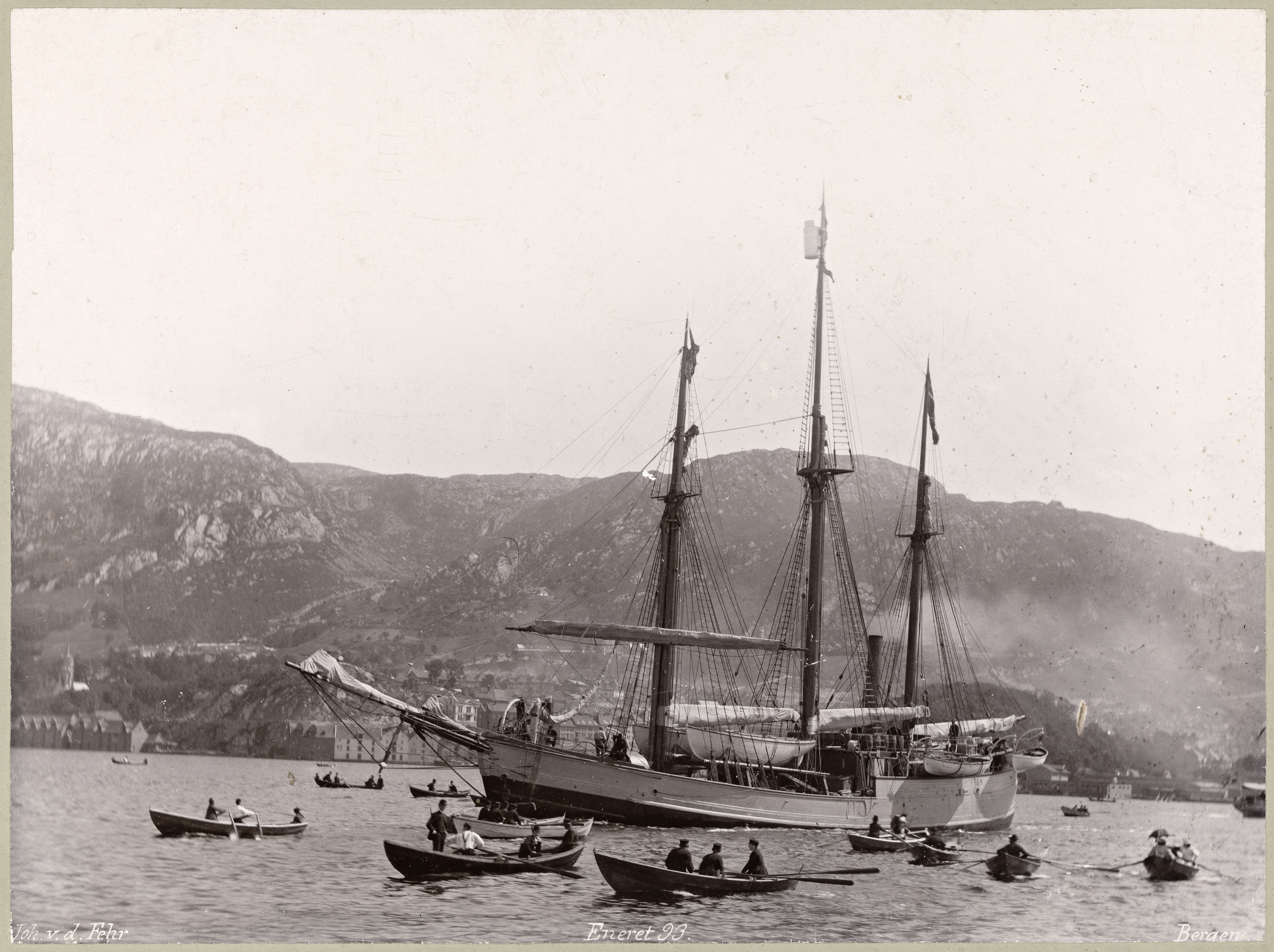 Dato / Date: 2. juli 1893 Fotograf / Photographer: Joh. v.d. Fehr Sted / Place: Bergen Eier / Owner Institution: Nasjonalbiblioteket / National Library of Norway Lenke / Link: Bildesignatur / Image Number: bldsa_q3c002